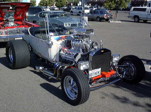 T-Bucket hot rod at the weekly Garden Grove, California car show.